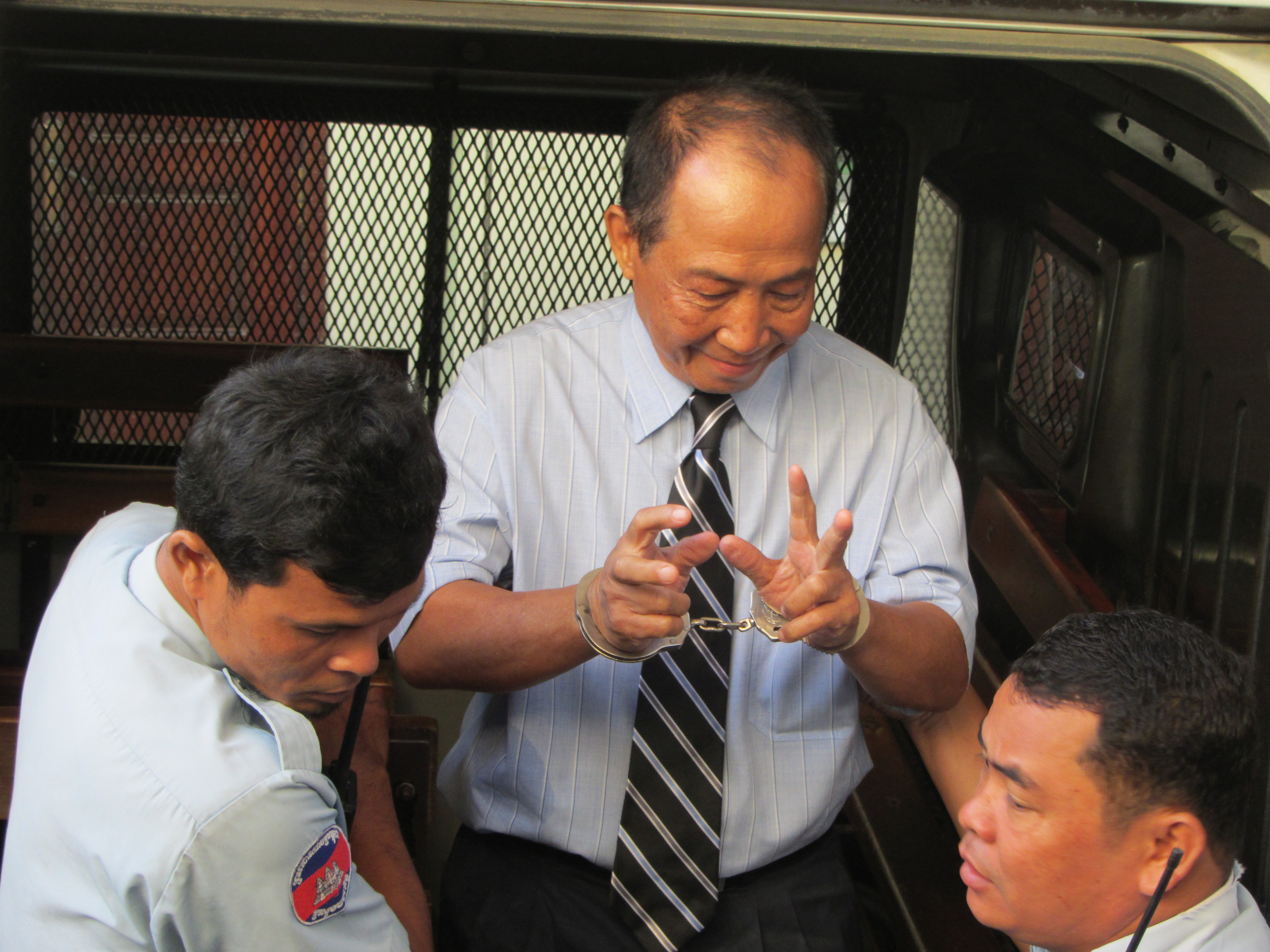 Mam Sonando is serving a 20-year prison sentence on charges widely condemned as exaggerated, following critical remarks about Prime Minister Hun Sen.